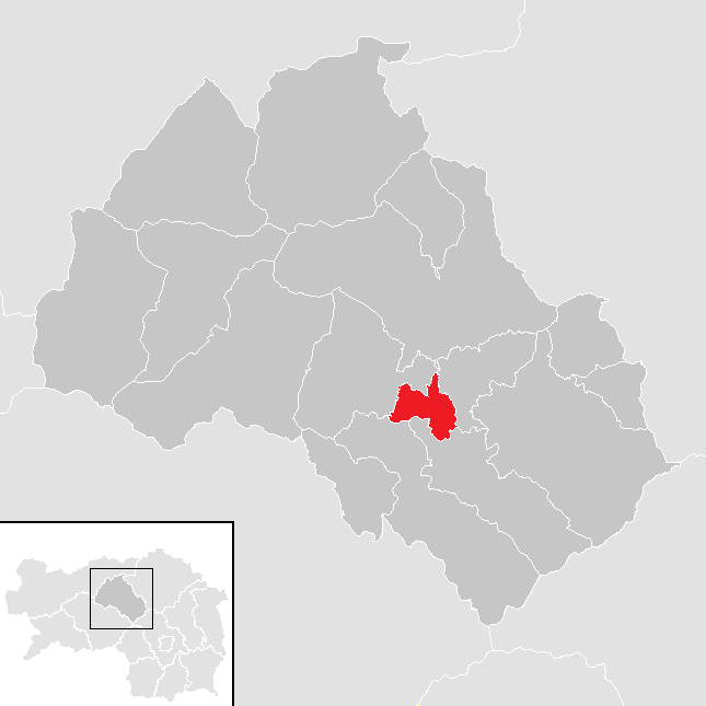 District Leoben